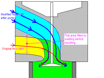 I created this